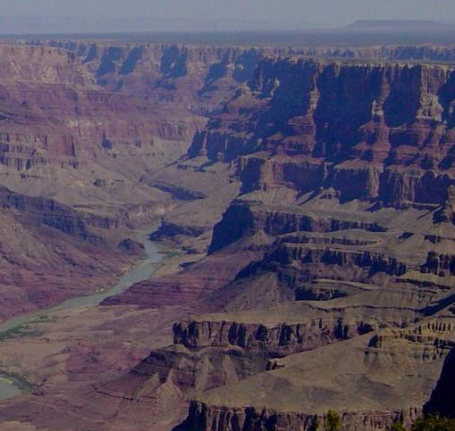 Image taken in April 2004 by Daniel Mayer.